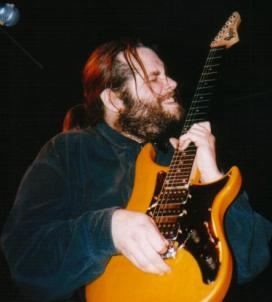 Photo of Shawn Lane taken by Carl Johan Grimmark.